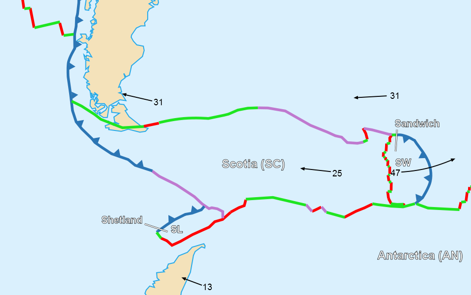 Map of the Scotia Plate